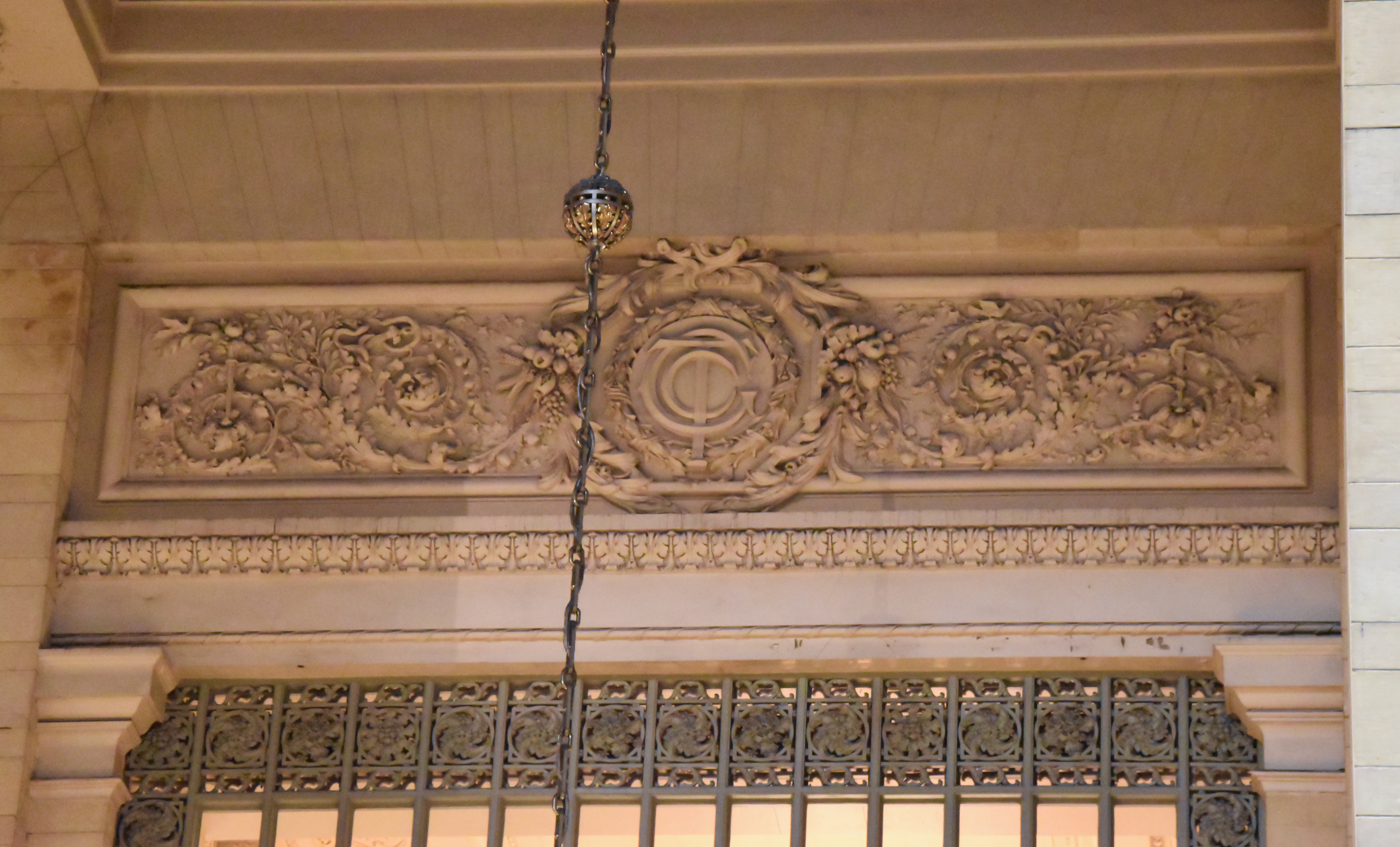 Frieze in the Main Concourse of New York City's Grand Central Terminal in 2019. Taken as part of a scheduled photoshoot with three other Wikipedians on January 7, 2019.